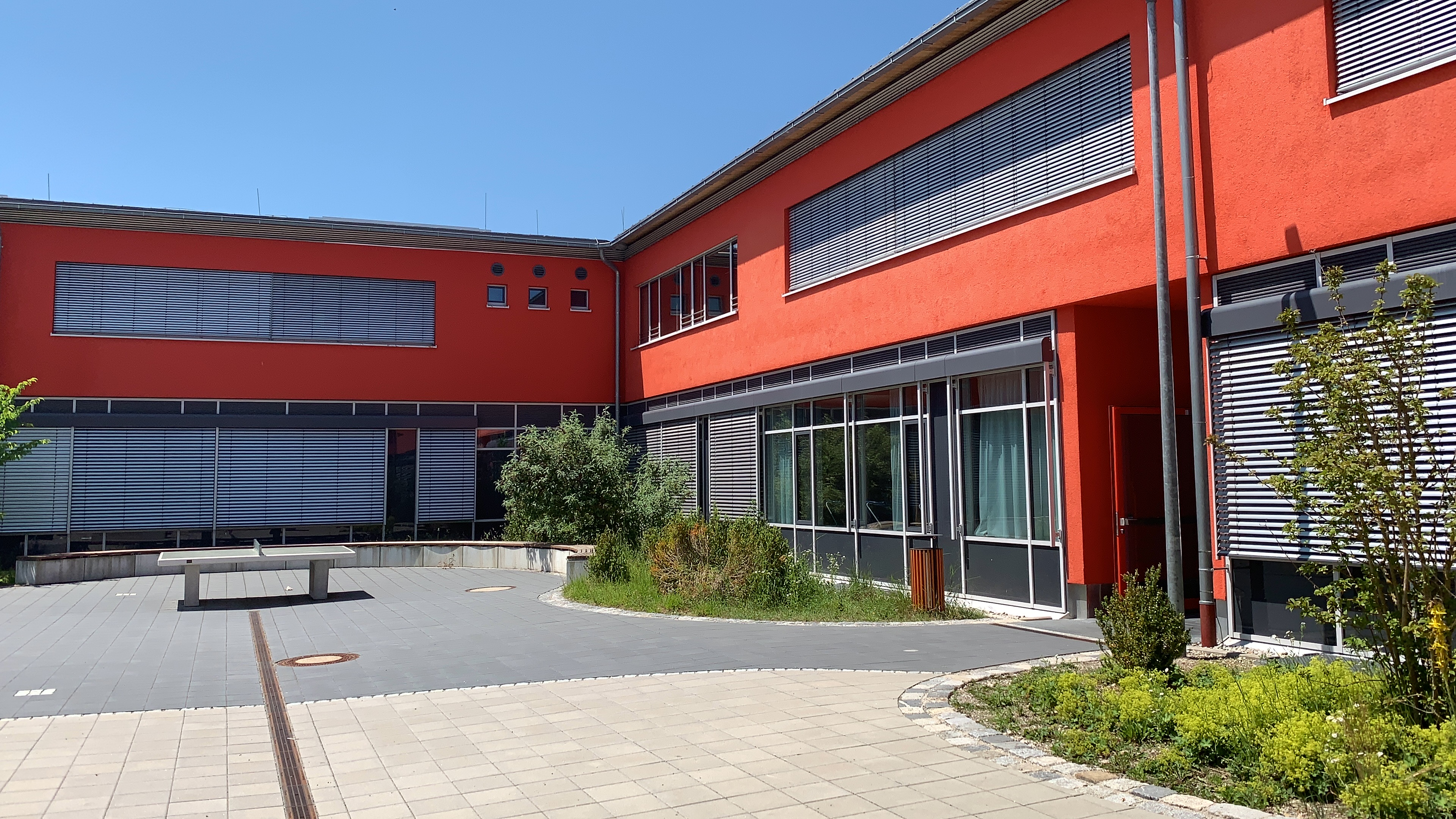 It shows the inner courtyard of the Carl-Spitzweg-Gymnasium in Germering.